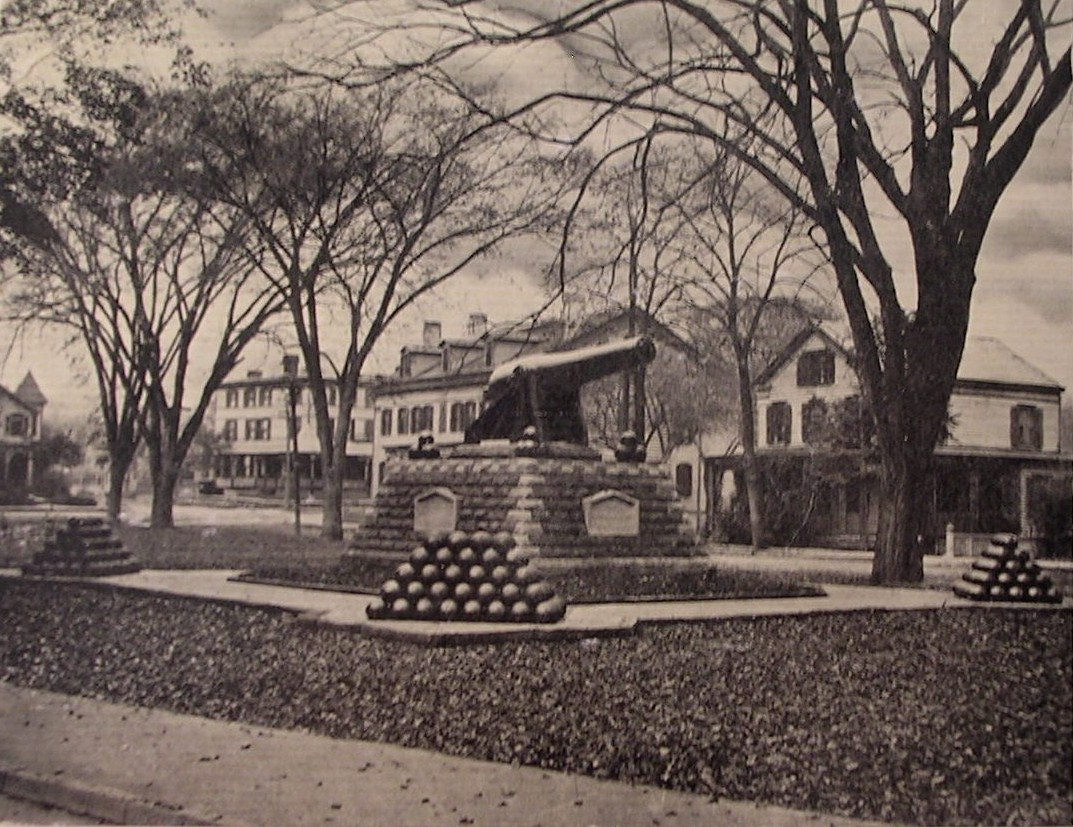 Picture (edges slightly cropped) of USS Kearsarge Gun Memorial, West Park (now Columbus Park) in the downtown section of Stamford from a postcard sent in 1909; cropped off portion of the picture side of the undivided-back postcard states "4125 West Park, Main St., Stamford, Conn." (The gun was also used on the USS Lancaster.)